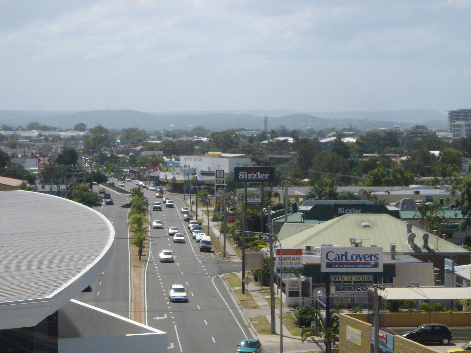 View from 603